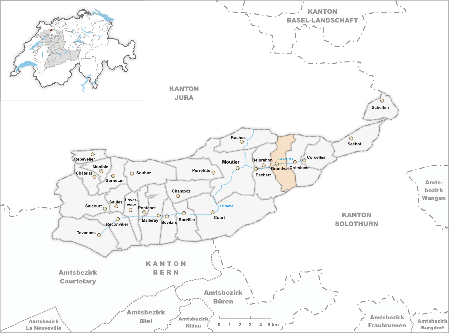 Municipality Grandval